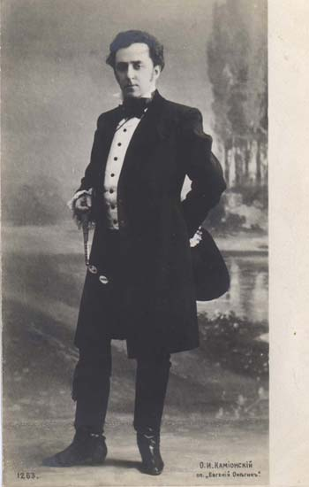 Photo of russian opera singer Oscar Kamionsky (1869-1917)